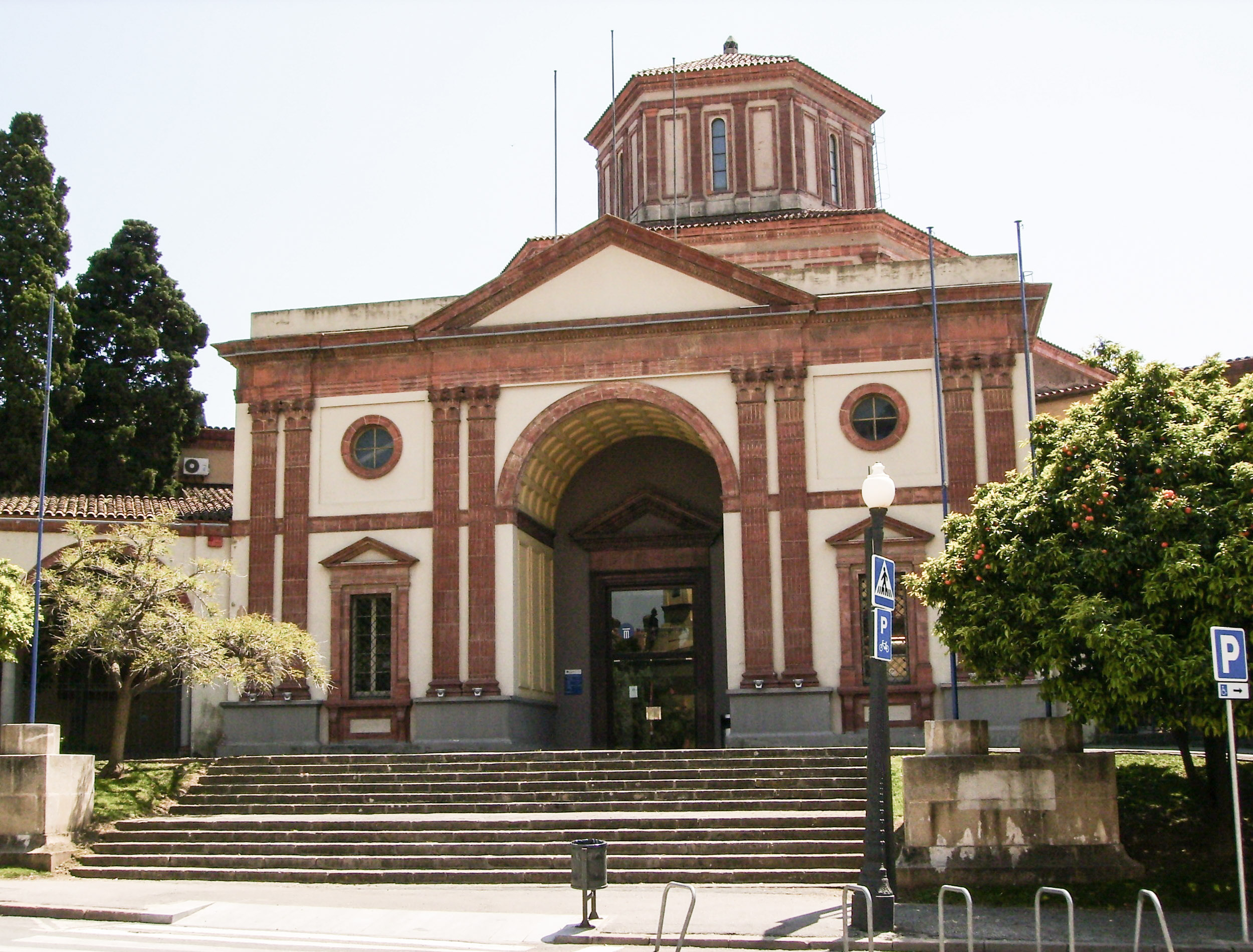 Archeological Museum of Catalonia in Barcelona. Web page